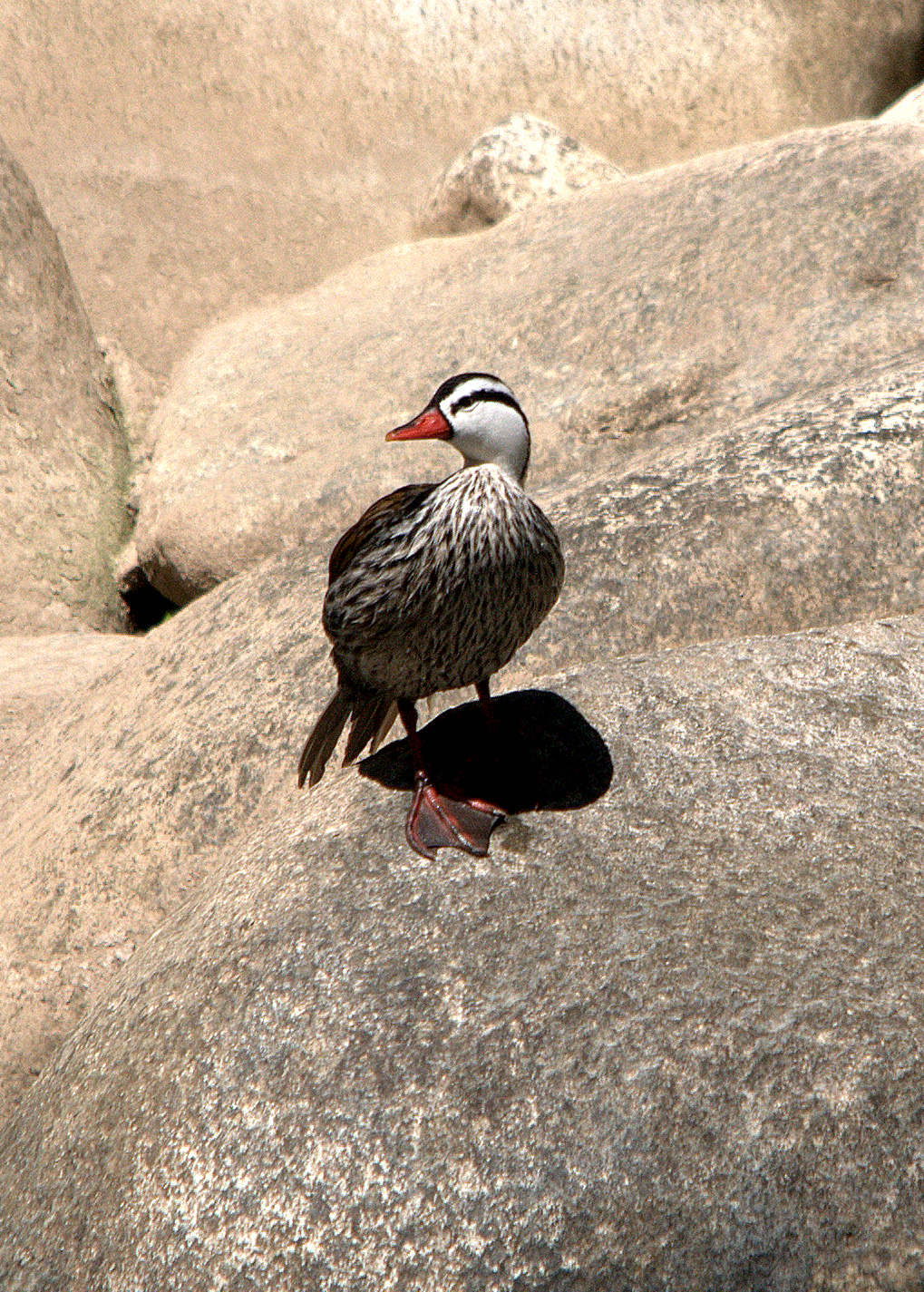 A male Torrent Duck standing on rocky banks of the Urumbamba River, Peru.